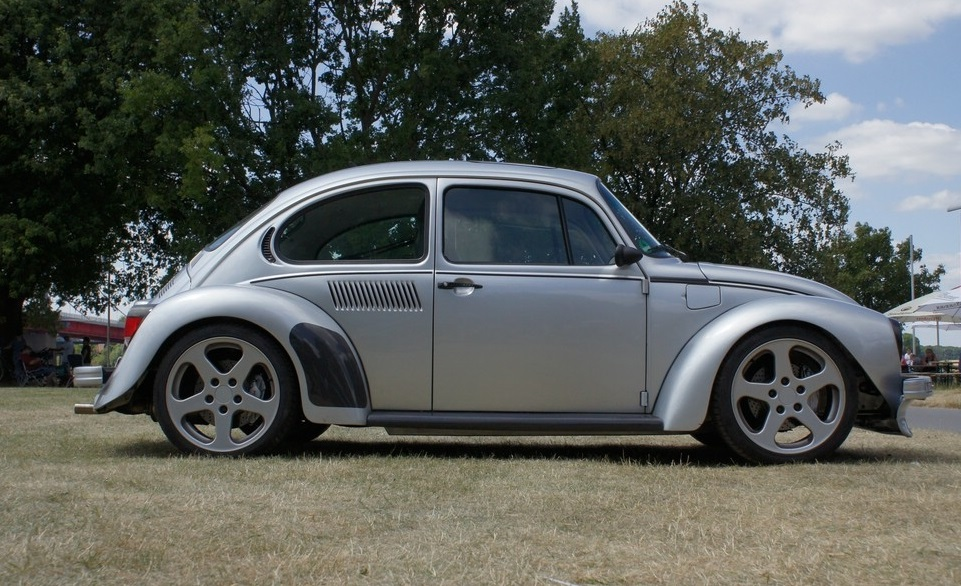 Carrera Beetle, 914 chassis, 997 engine, Boxster S gearbox